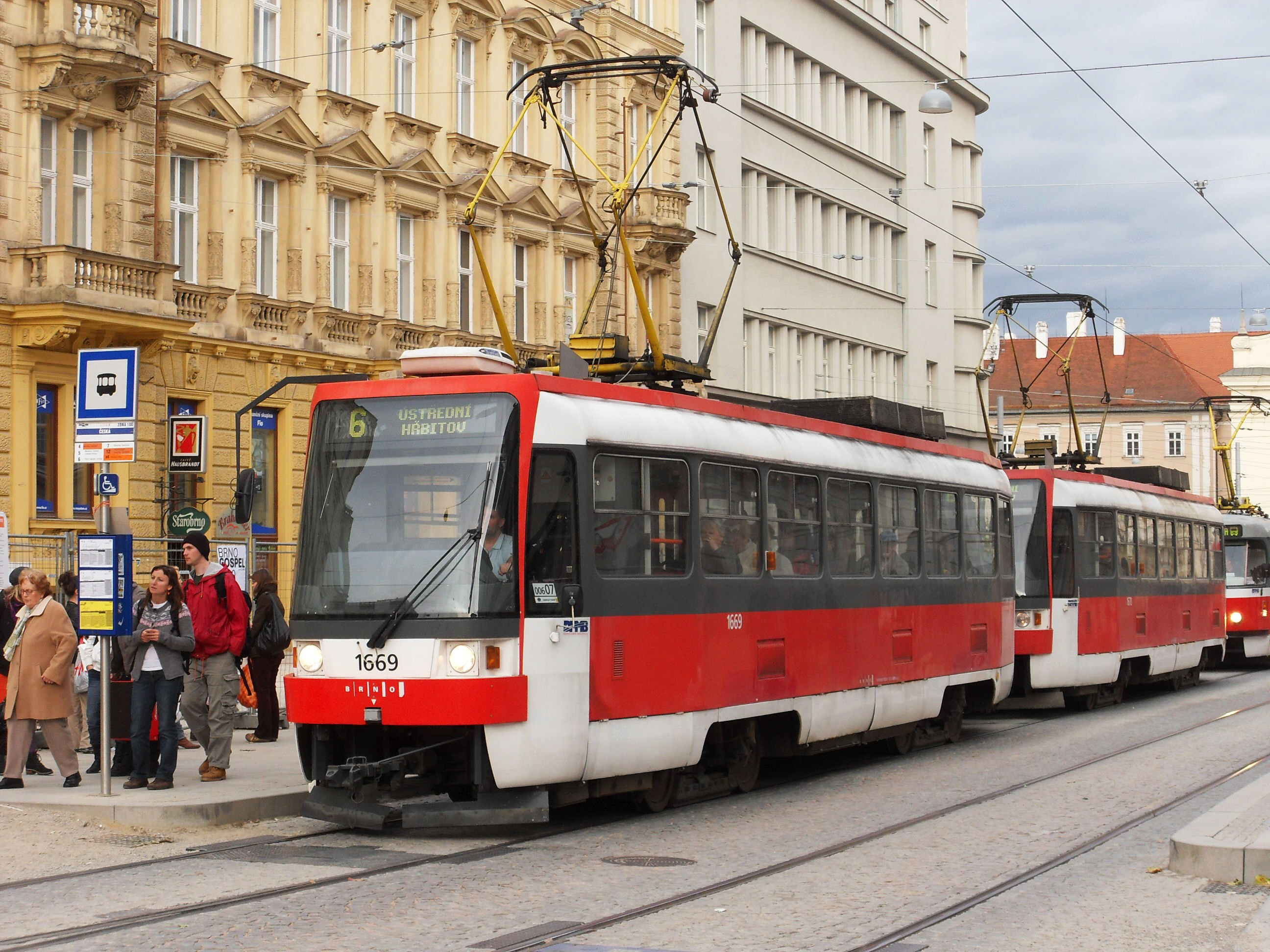 Two Tatra T3RF trams No. 1669+1670 of Dopravní podnik města Brna, Brno, Czech Republic